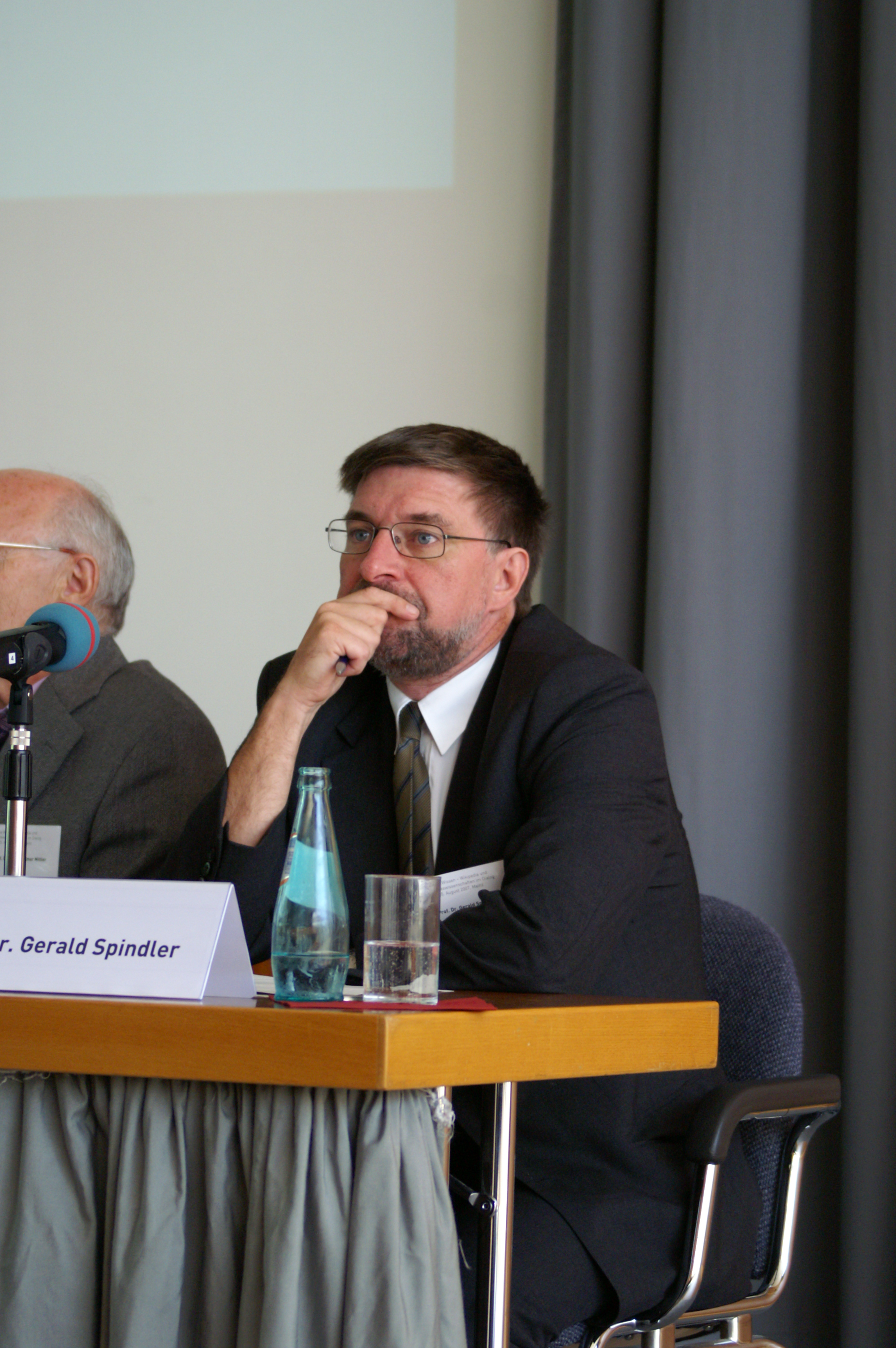 Pictures from Wikipedia Academy Mainz 24./25. August 2007 Prof Spindler während der Podiusmdiskussion Acadeym 2007